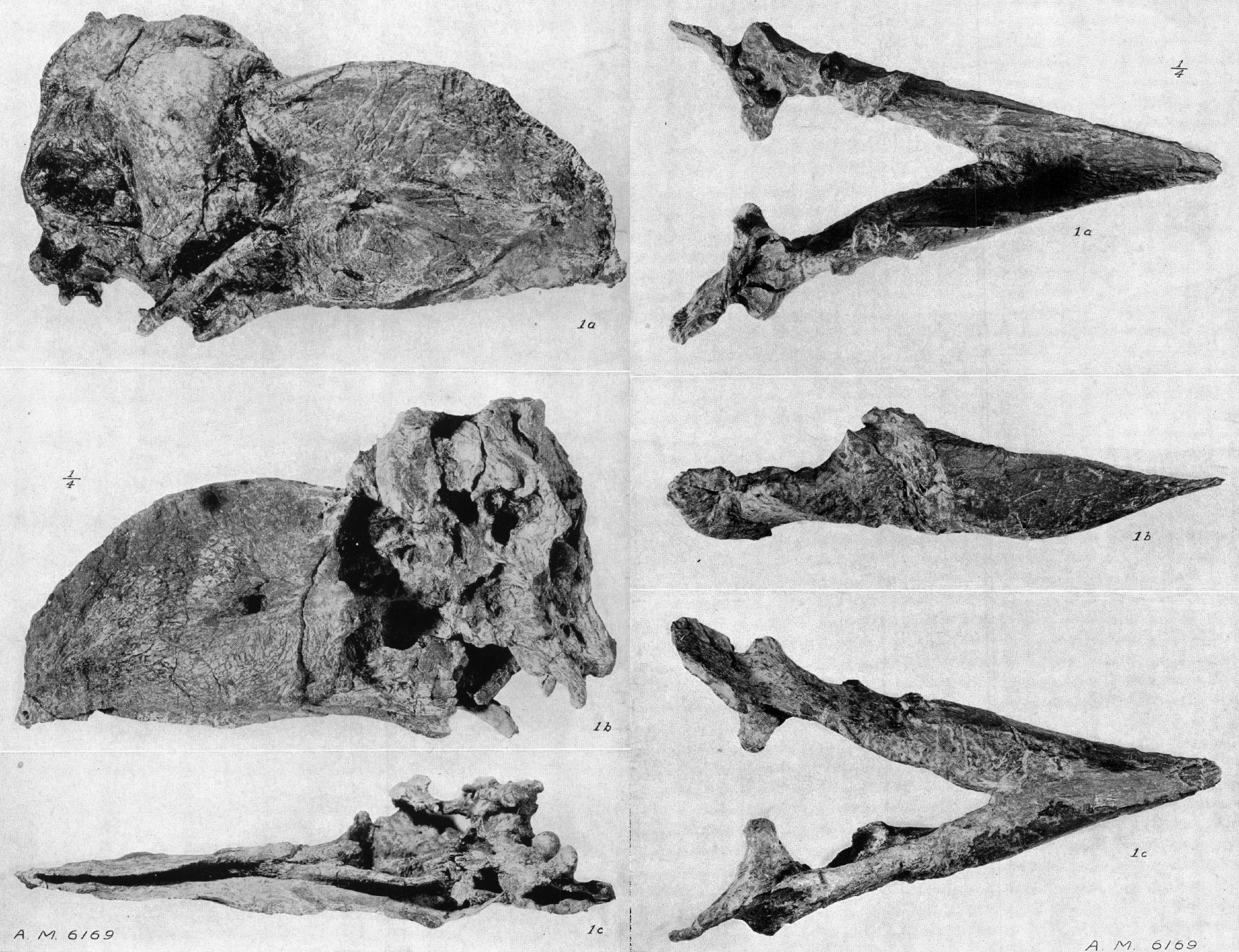 Skull and mandible of Gastornis giganteus (formerly Diatryma steini) specimen AMNH 6169.